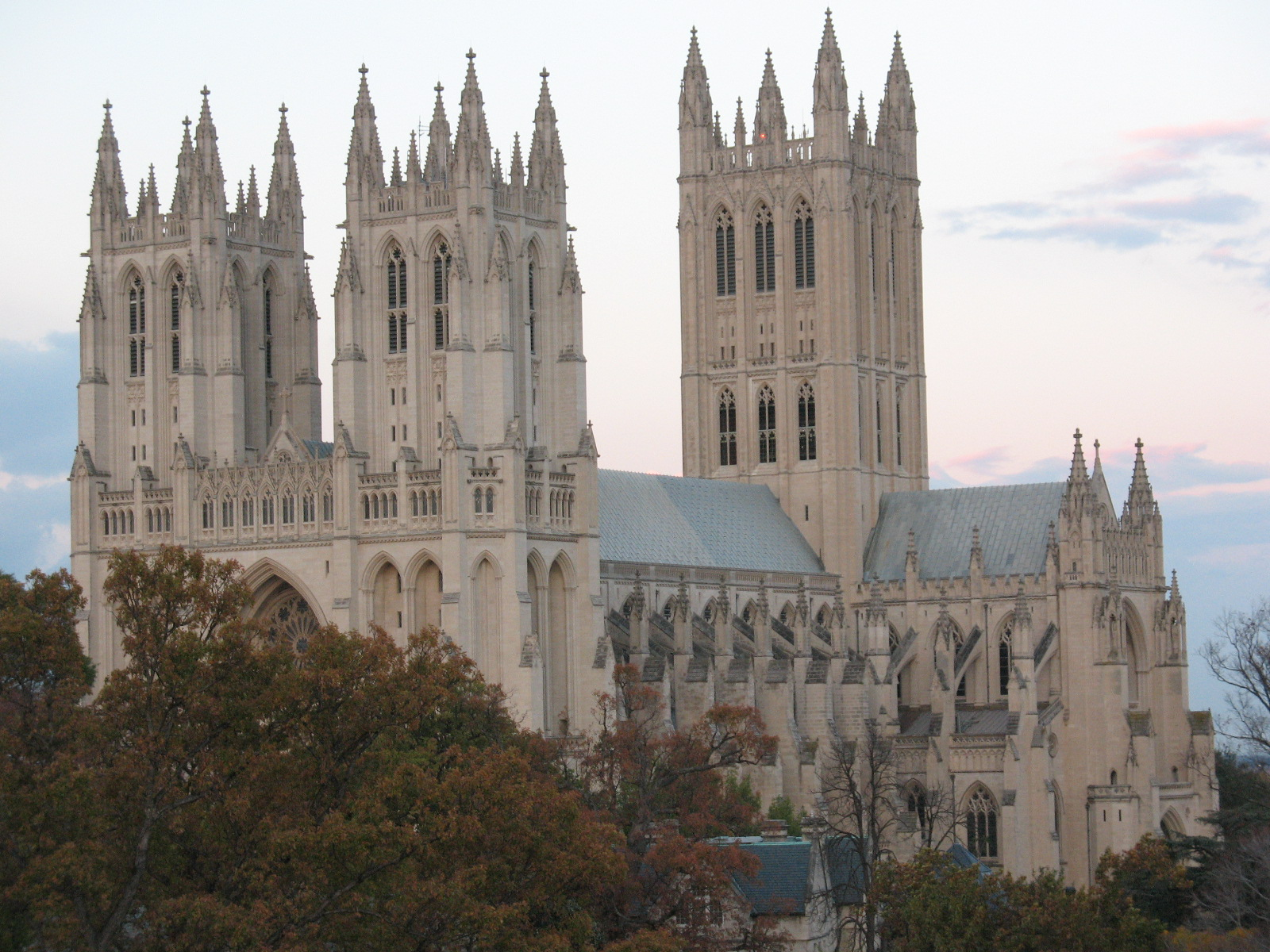 National Cathedral